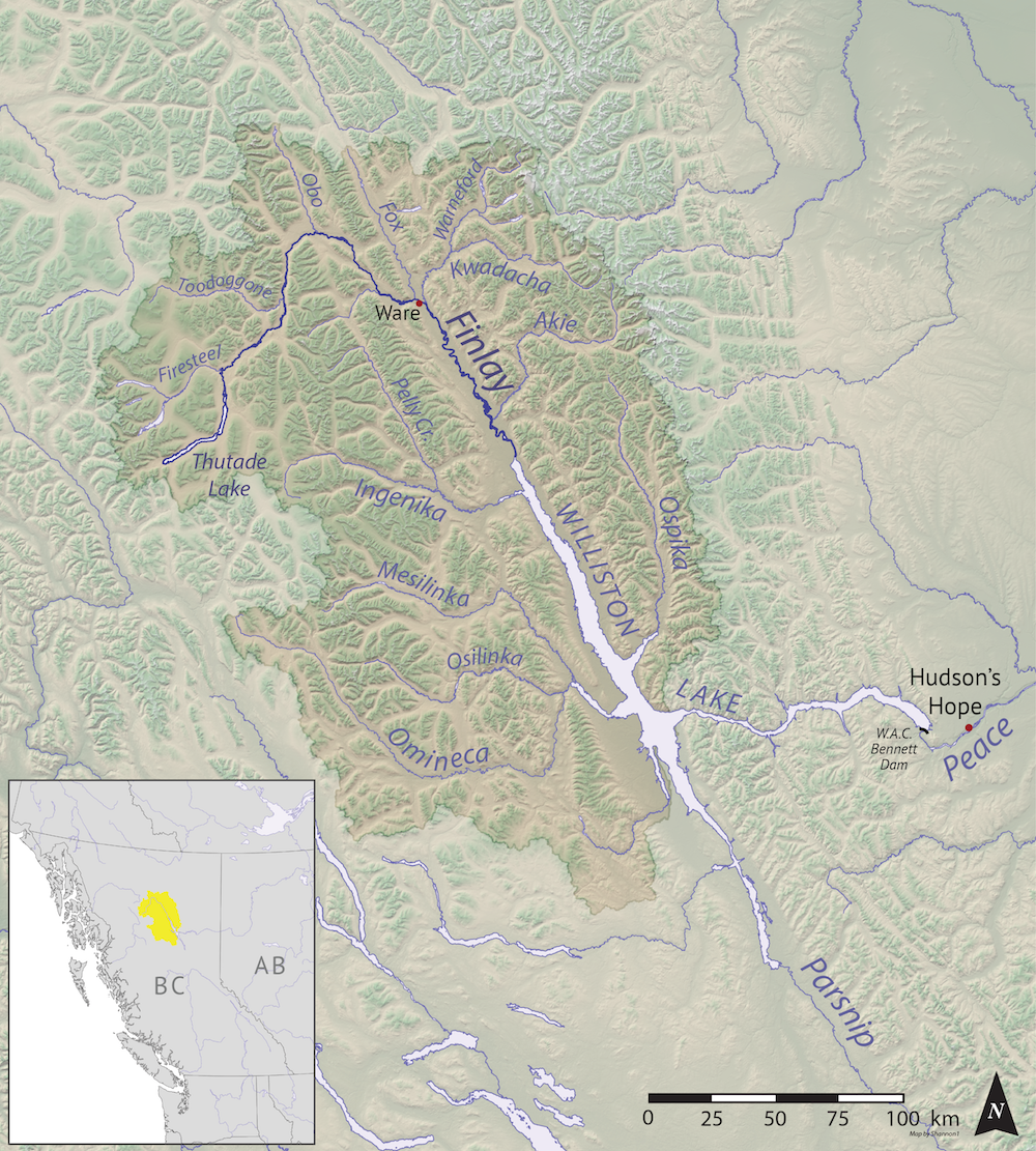 Map of the drainage basin of Finlay River, a tributary of the Peace River in Northern BC. Data derived from NASA SRTM, Natural Resources Canada, US Geological Survey, and Natural Earth.